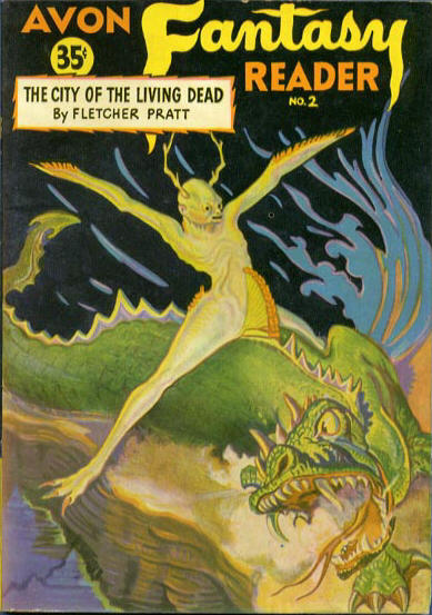 Cover of the fantasy fiction magazine Avon Fantasy Reader no. 2 (1947) featuring "The City of the Living Dead" by Fletcher Pratt.